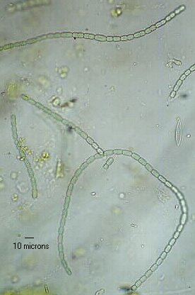 Image of Nostoc Azollae from